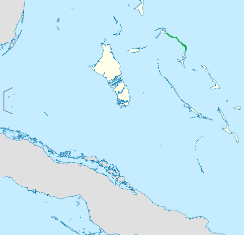 Location map of the Bahamas Equirectangular projection, N/S stretching 105 %. Geographic limits of the map: * N: 27.5° N * S: 20.7° N * W: 80.7° W * E: 70.8° W